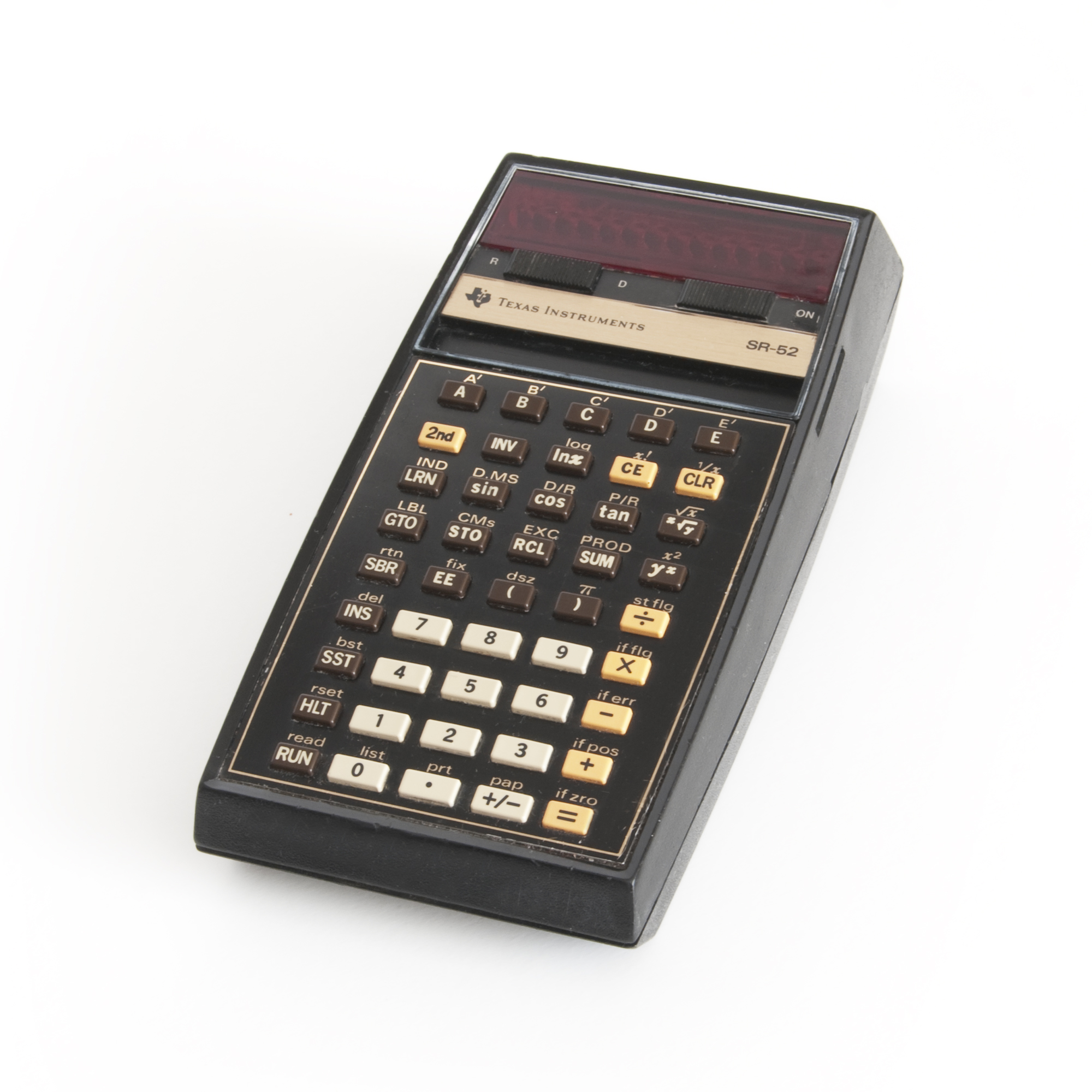 Texas Instruments programmable calculator, model SR-52. Part of the University of South Australia's collection.